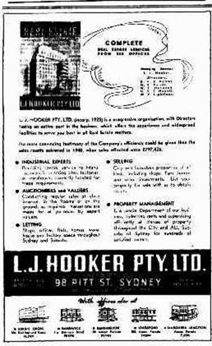 LJ Hooker in The Sydney Morning Herald 14 February 1941